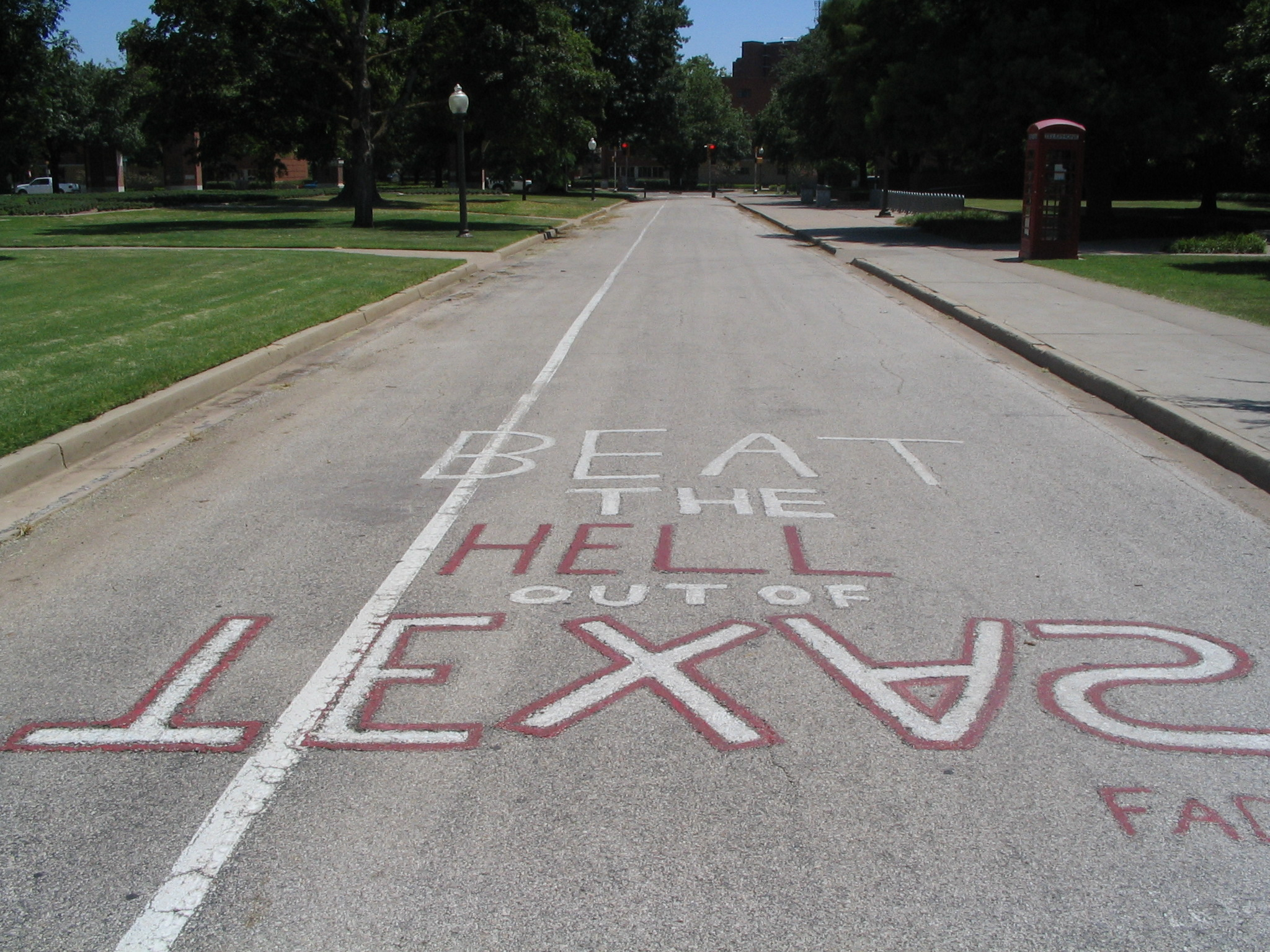 Painted text on pavement in the South Oval in Norman, OK. Removed in 2006.